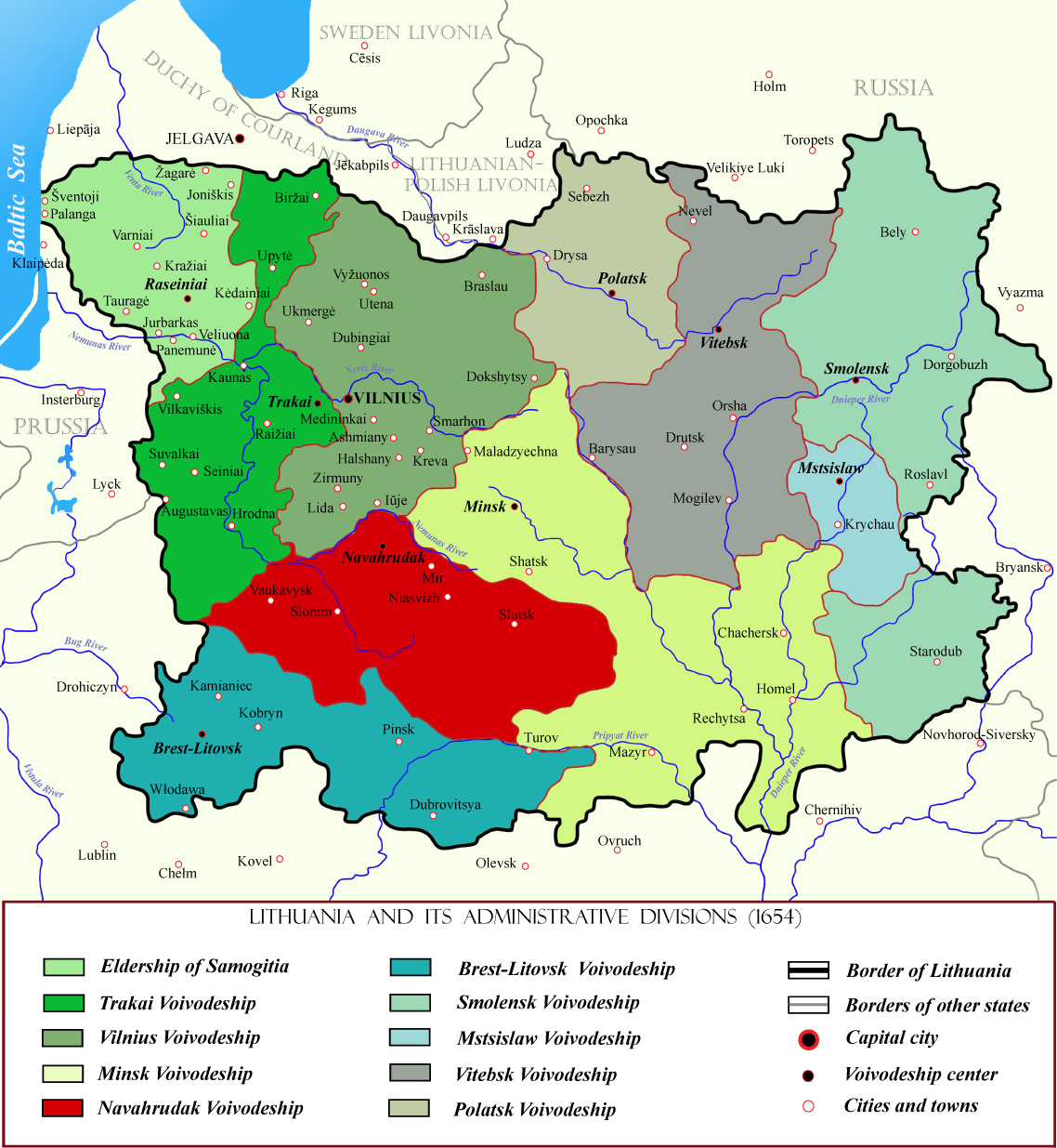 Navahrudak Voivodeship (red) within Lithuania in the 17th century